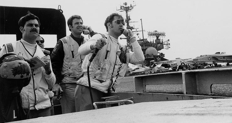 U.S. Navy Lieutenant Michael F. Jordan (center), Landing Signal Officer of Carrier Air Wing 7 (CVW-7), and Lt. Mike Curtain, Fighter Squadron 102 (VF-102) LSO controlling, and two other landing signal personnel, man their stations during aircraft recovery on board the carrier USS Independence (CV-62). The carrier was operating in the Mediterranean Sea. In the background three of CVW-7's aircraft are visible: A McDonnell Douglas F-4J Phantom II (BuNo 155545) of VF-33 "Tarsiers", a North American RA-5C Vigilante of Reconnaissance Heavy Attack Squadron 9 (RVAH-9) "Hoot Owls" and a Grumman A-6E Intruder of Attack Squadron 65 (VA-65) "Tigers". CVW-7 was assigned to the Independence for a deployment to the Mediterranean Sea from 19 July 1974 to 21 January 1975.